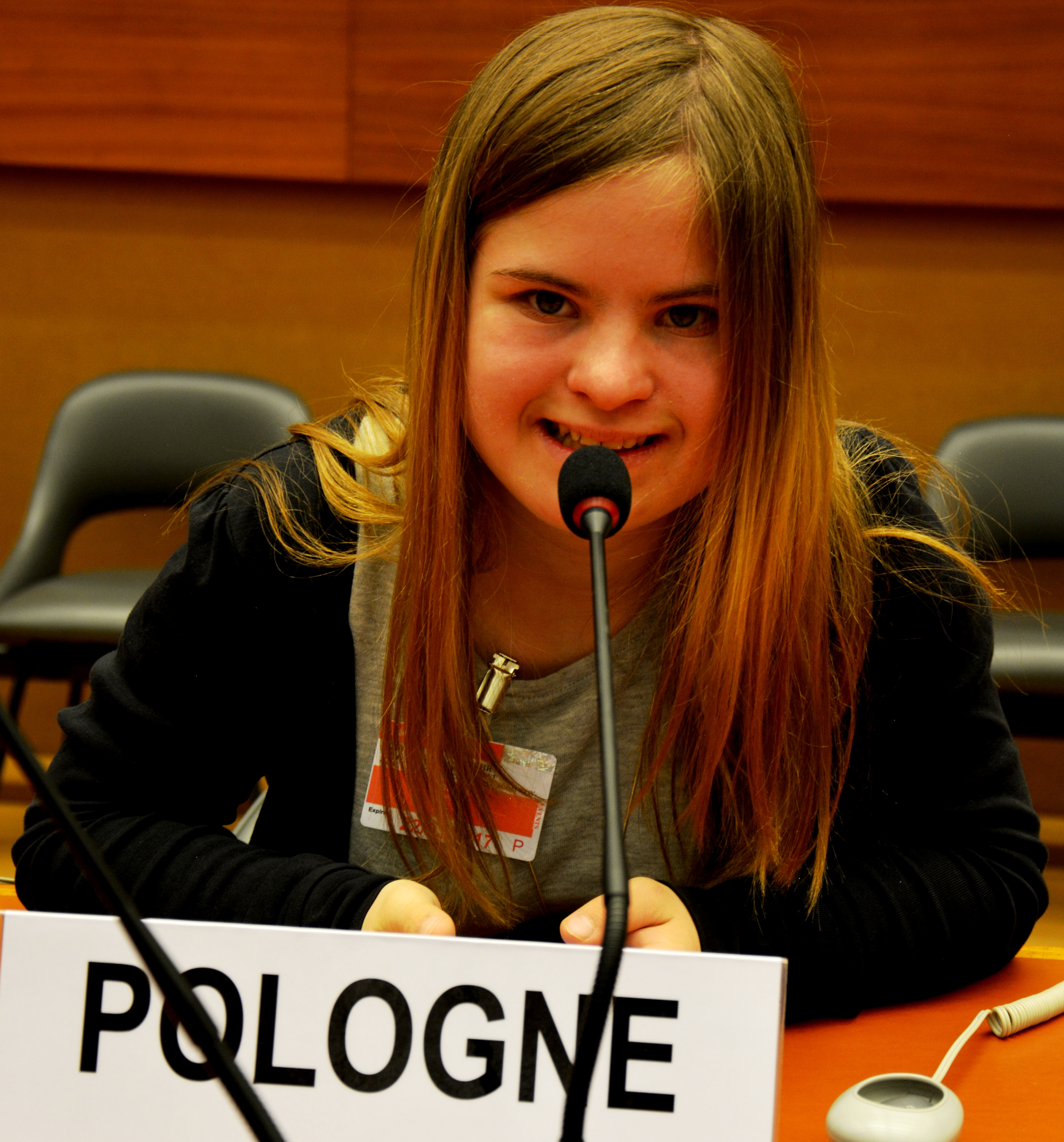 Actress with a disability, volunteer, self-advocate